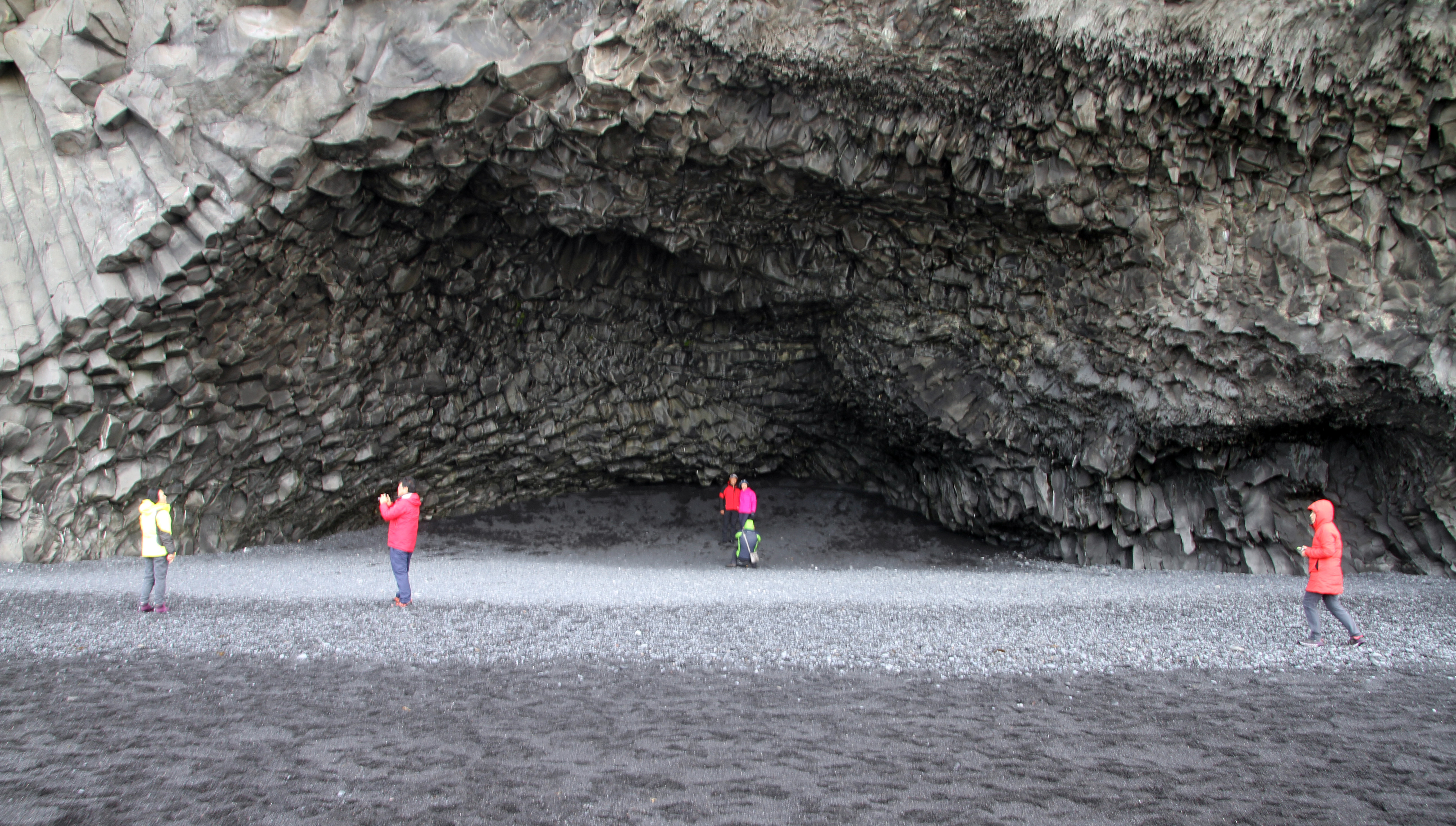 Columnar basalts at Reynisfjara